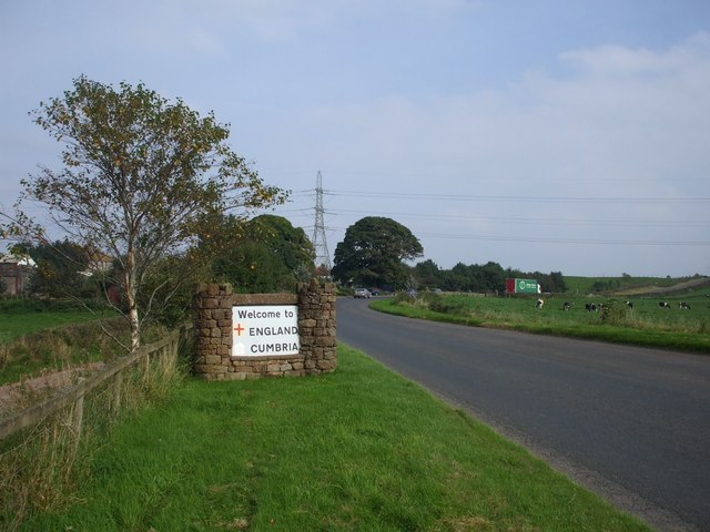 Welcome to England